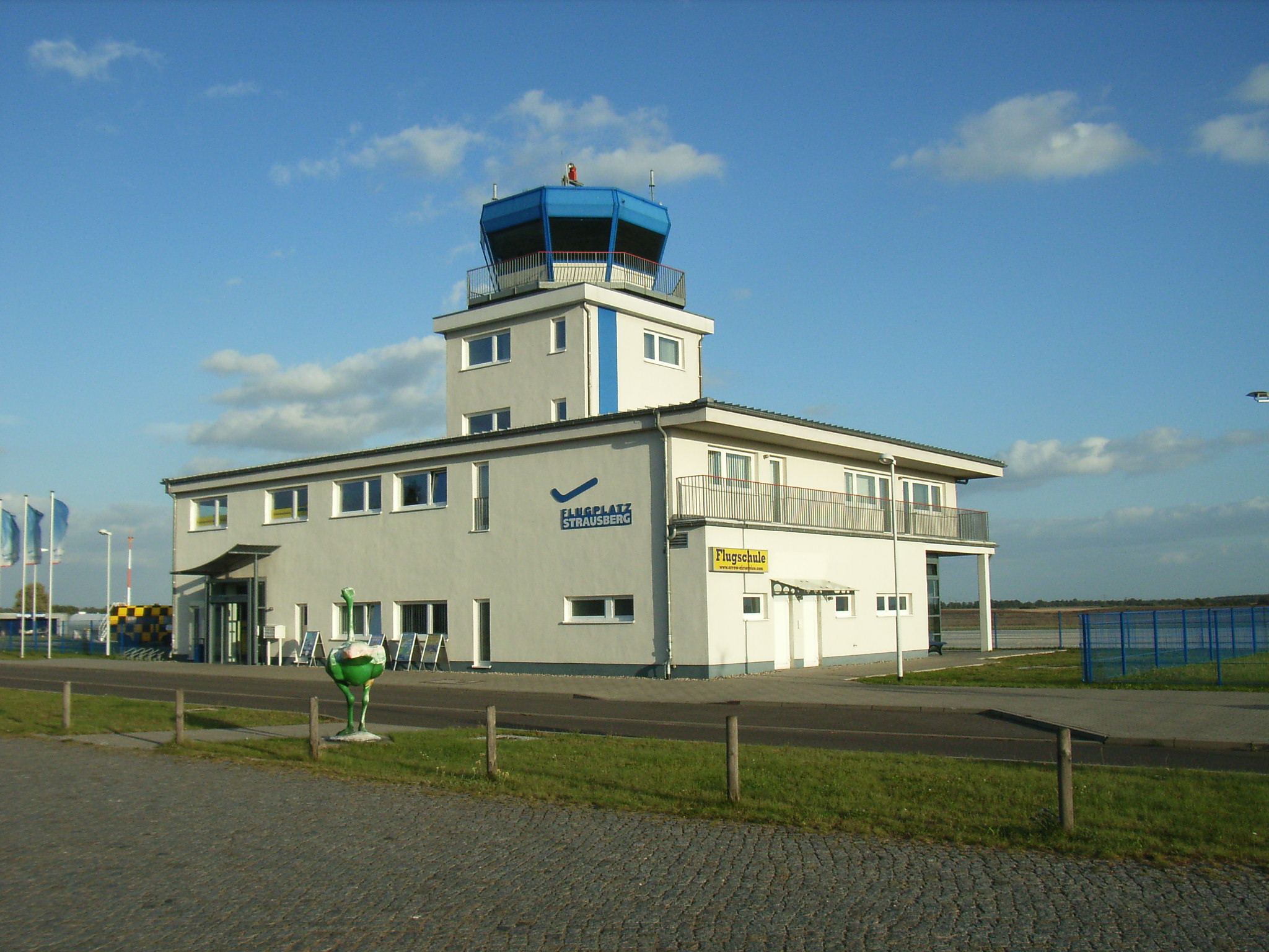 Airfield Strausberg in Brandenburg, Germany